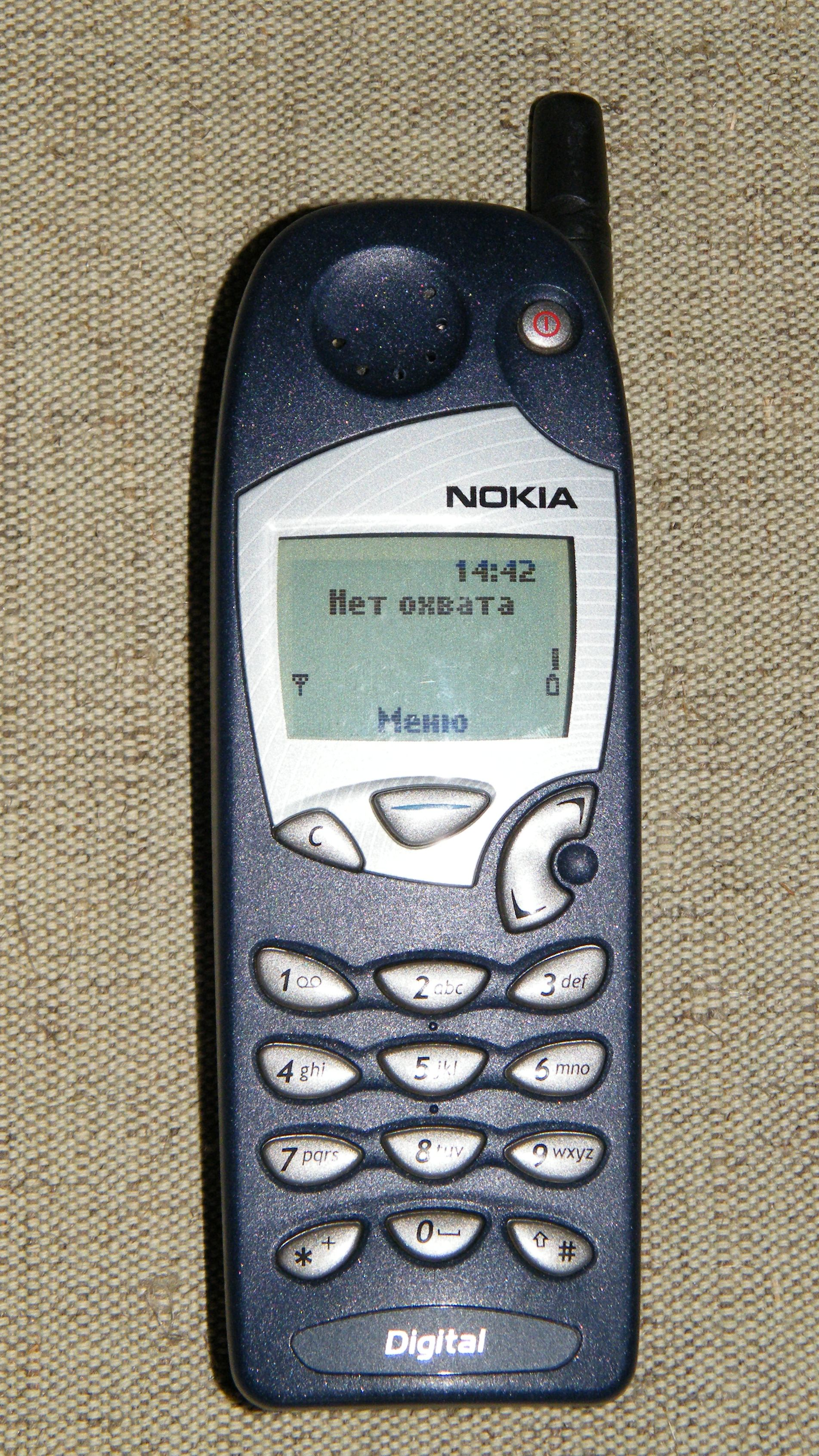 Nokia 5125 DAMPS